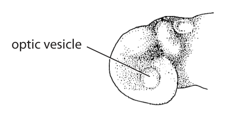 Standard Event System character depiction